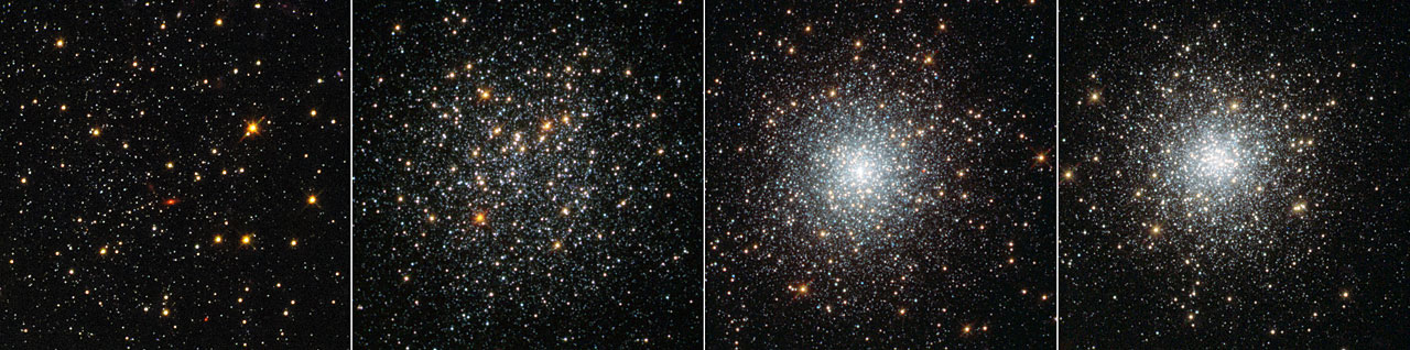 This NASA/ESA Hubble Space Telescope image shows four globular clusters in the dwarf galaxy Fornax. New observations of the clusters— large balls of stars that orbit the centres of galaxies — show they are very similar to those found in our galaxy, the Milky Way. The finding is at odds with leading theories on how these clusters form — in these theories, globular clusters should be nestled among large quantities of old stars — and so the mystery of how these objects came to exist deepens. Left to right: Fornax 1, Fornax 2, Fornax 3 and Fornax 5. Their positions within the galaxy are shown in image G.